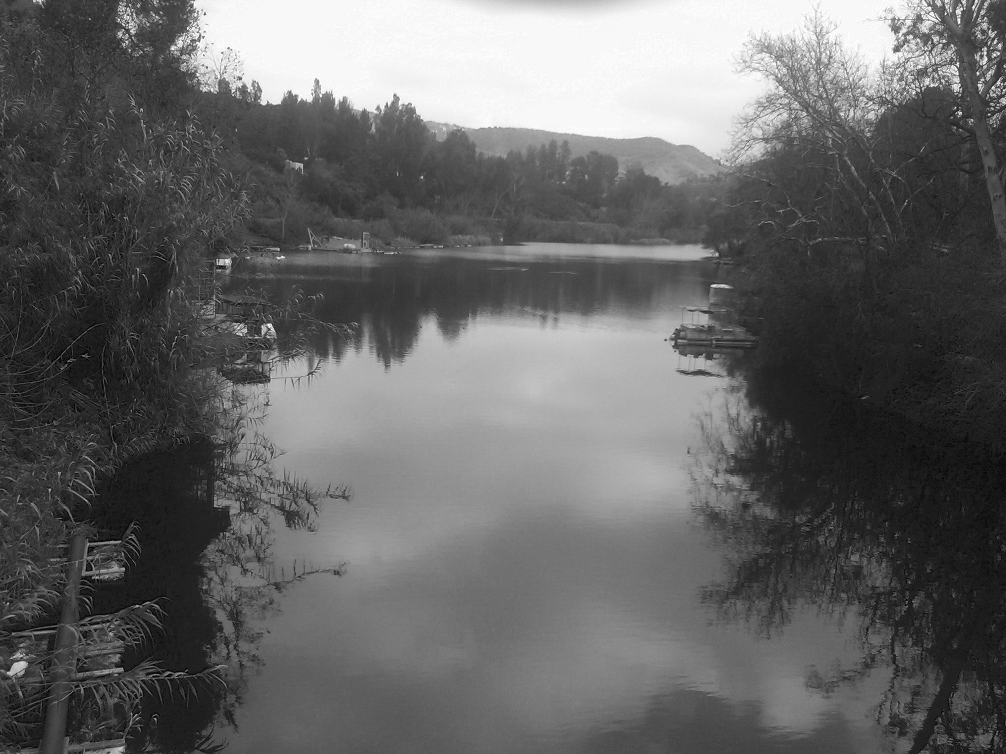 Malibou Lake in black and white — Santa Monica Mountains.